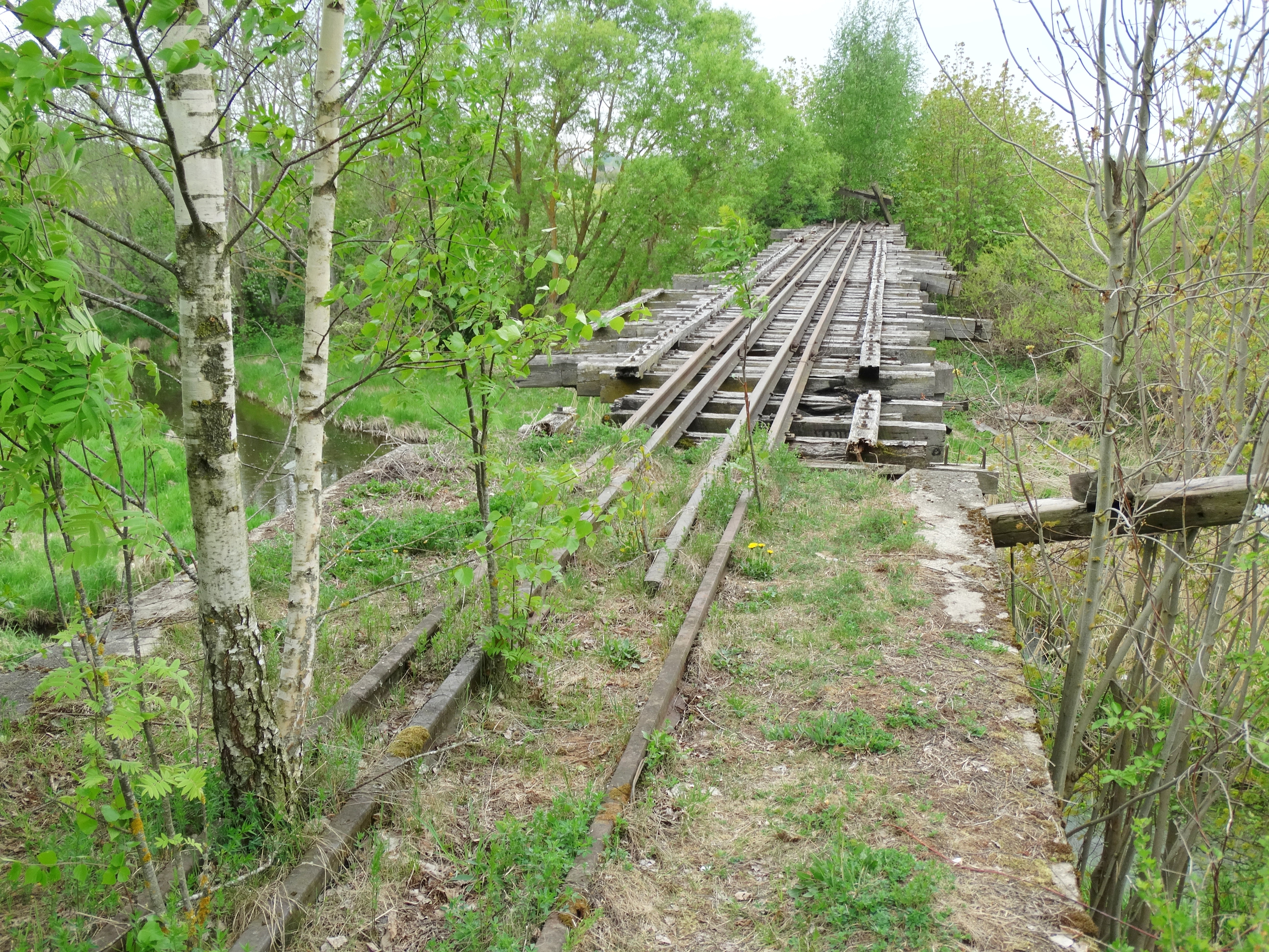 Bridge on Daugyvenė River, Rimšoniai, Pakruojis district, Lithuania